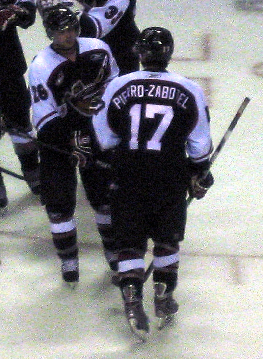 Defenceman Brent Regner and forward Casey Pierro-Zabotel of the Vancouver Giants on November 16, 2008.